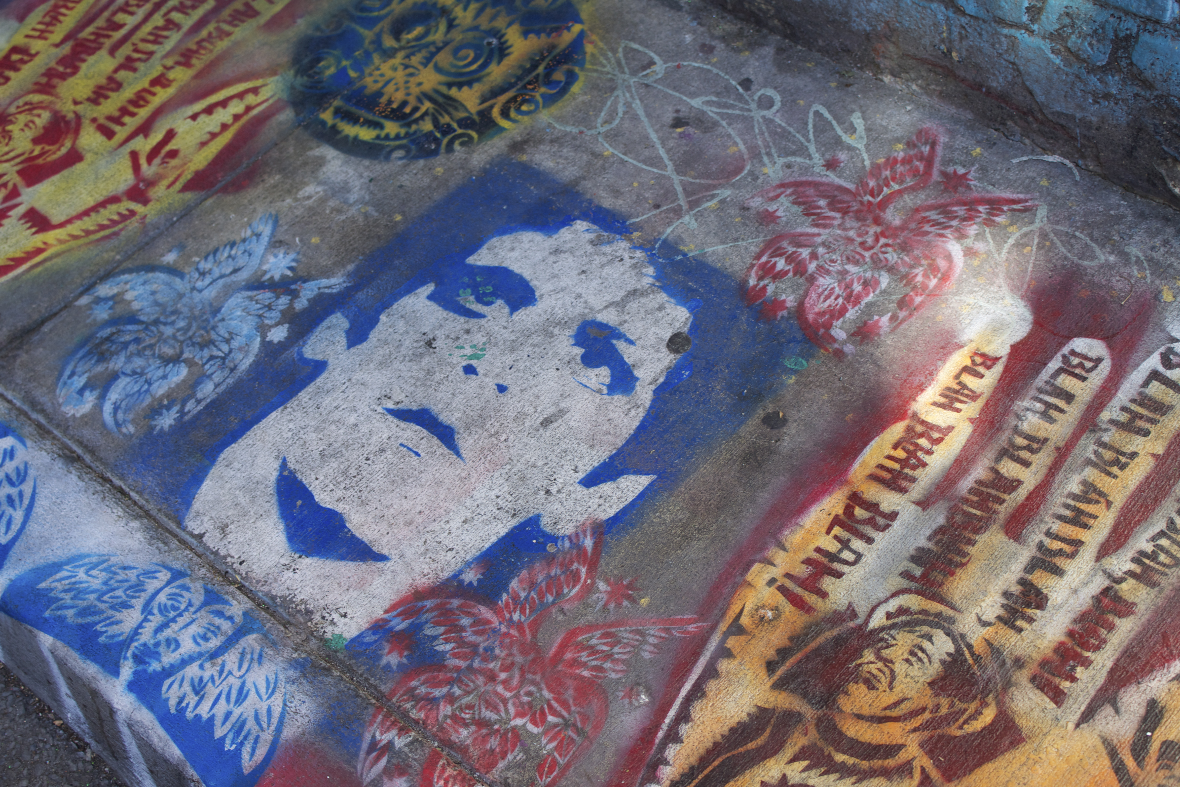 Street art with Lou Reed.